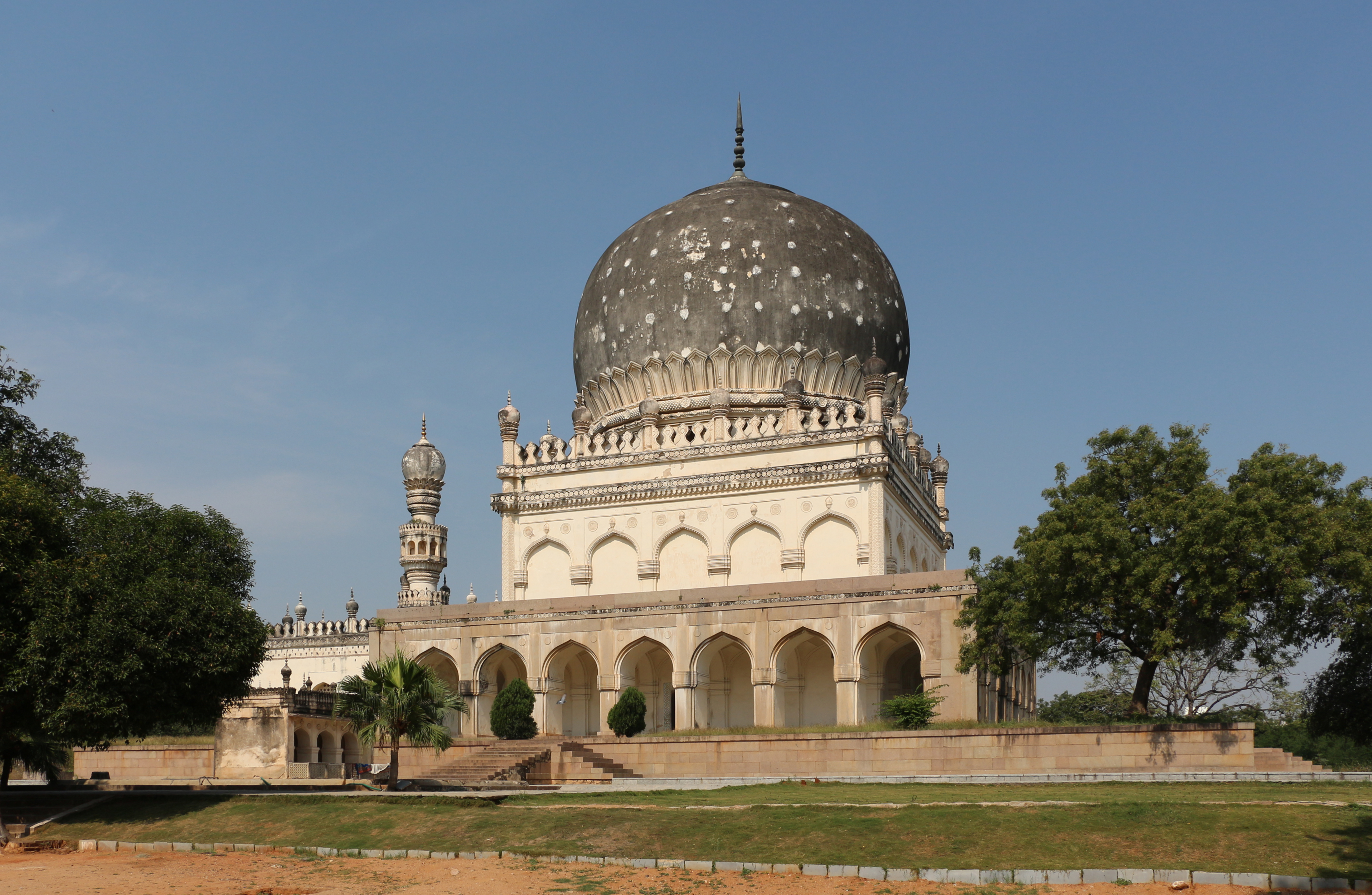 Tomb of Hayath Bakshi Begum, Hyderabad, India